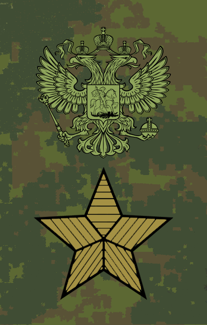 Rank insignia of the Russian Federation`s Armed forces, here Marshal of the Russian Federation, field uniform (MOD order №1500, September 3, 2011).